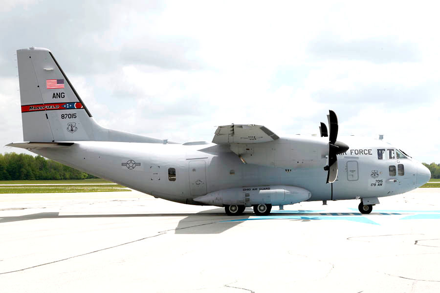 The 179 Airlift Wing displayed its newly painted C27 at Mansfield Lahm Airport, Ohio. The C27 now has its new tail flash resembling the Ohio flag and the base and squadron patches. The newly acquired DOD asset has finally been labeled Ohio National Guard.(U.S. Air Force photo by MSgt Lisa Haun)(Released)